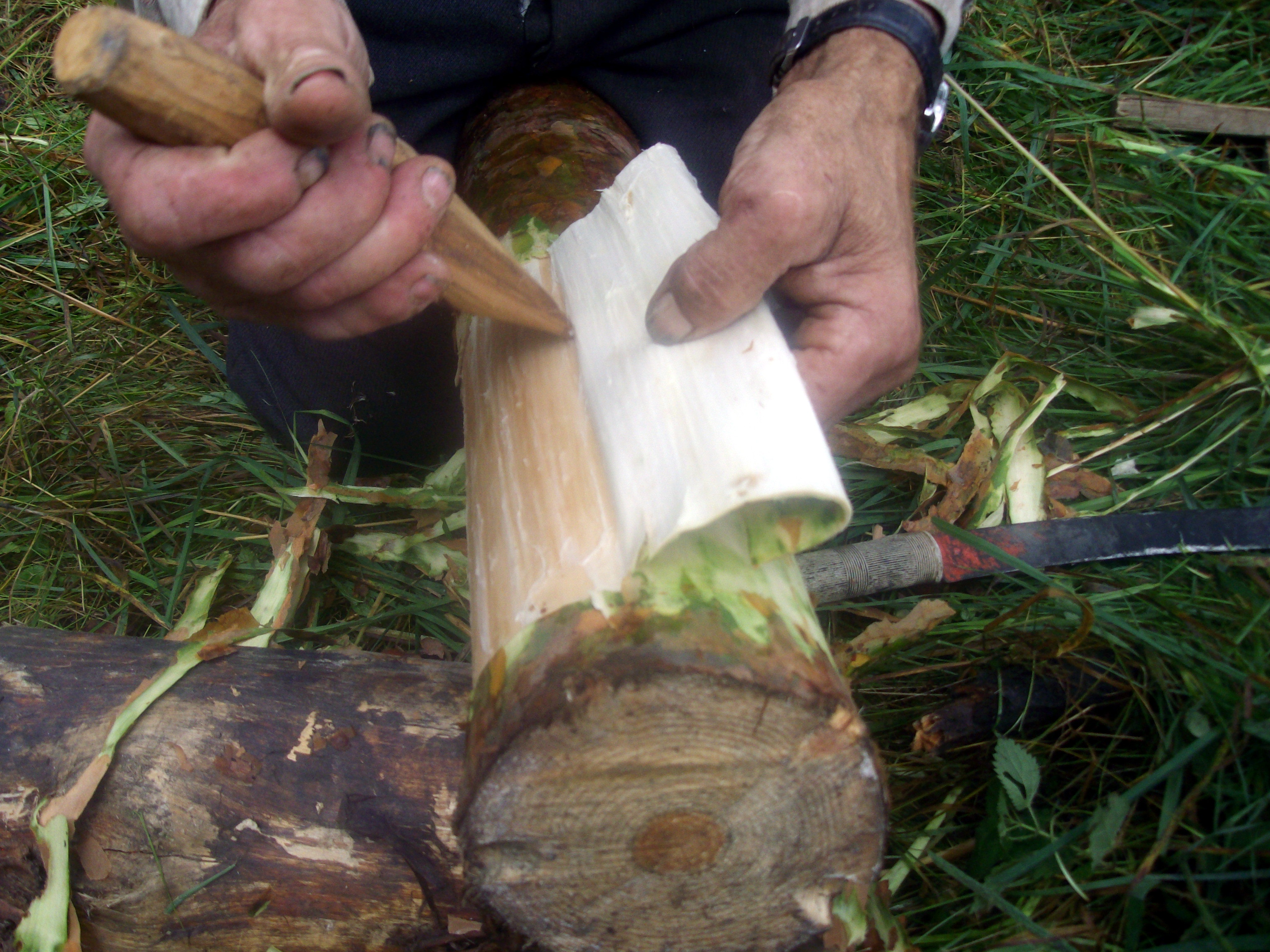 Removing the inner bark with the special tool, 'lusa': Bark of pine was used as emergency food in Finland during famine, last time during and after civil war in 1918. The surface of the bark was first removed. The inner bark was then detached from the tree by using a special tool made of hard wood e.g. juniper and called "lusa" in Finnish. Soft sheets of inner bark were then available. The sheets were left to dry for a couple of hours and then heated over fire or coals until light brown and fragile. The bark was then ground and the resultant flour was used for bread with rye.